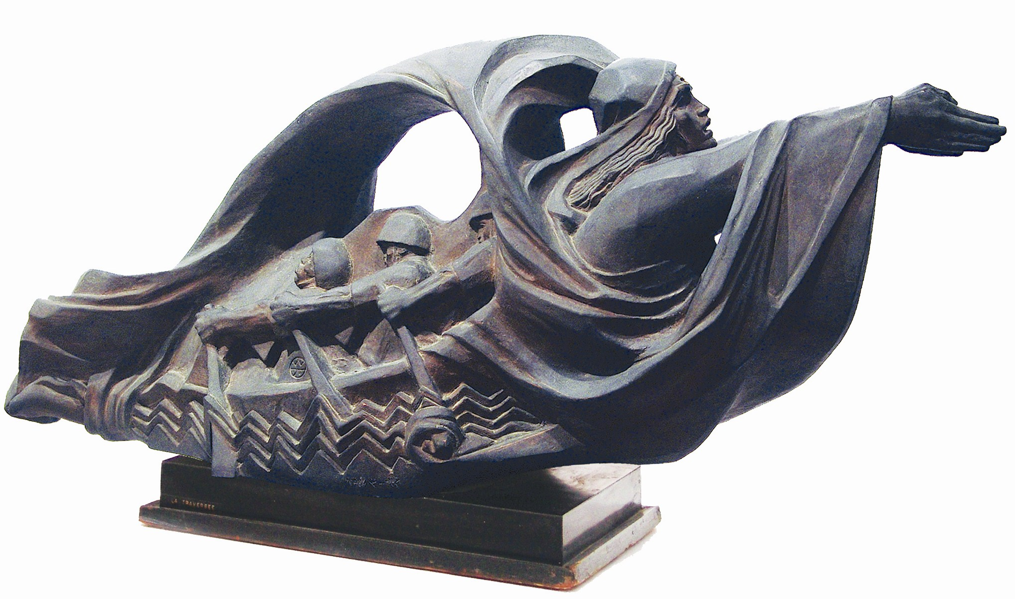 Statue by Egyptian Sculoptor Gamal Sagini called The Great Crossing of Suez Canal